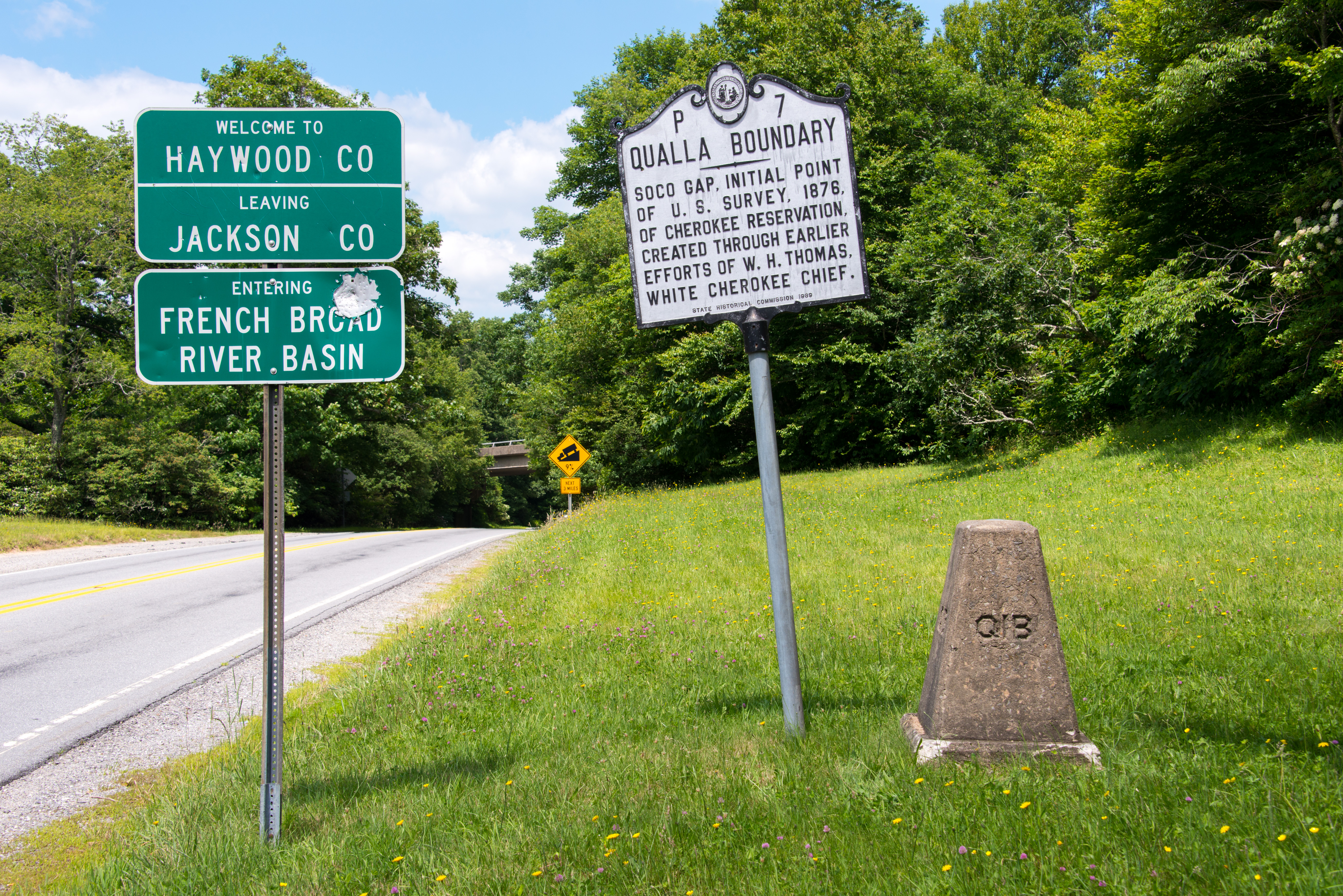 At the Soco Gap, located at the eastern point of the Qualla Boundary, between Haywood and Jackson counties, and connects both U.S. Route 19 and the Blue Ridge Parkway.